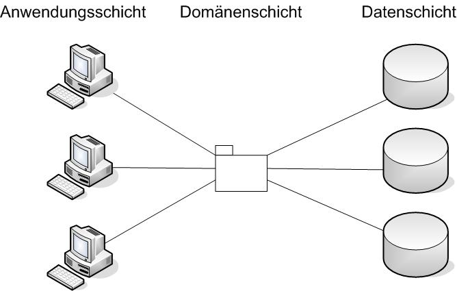 Example of a 3-tier architecture